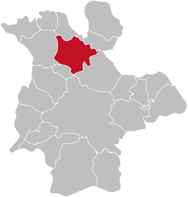 Location of the district Geisweid within Siegen, Germany. Red/Grey colors match the color scheme of Germany maps and information boxes in German Wikipedia. District is highlighted in red.